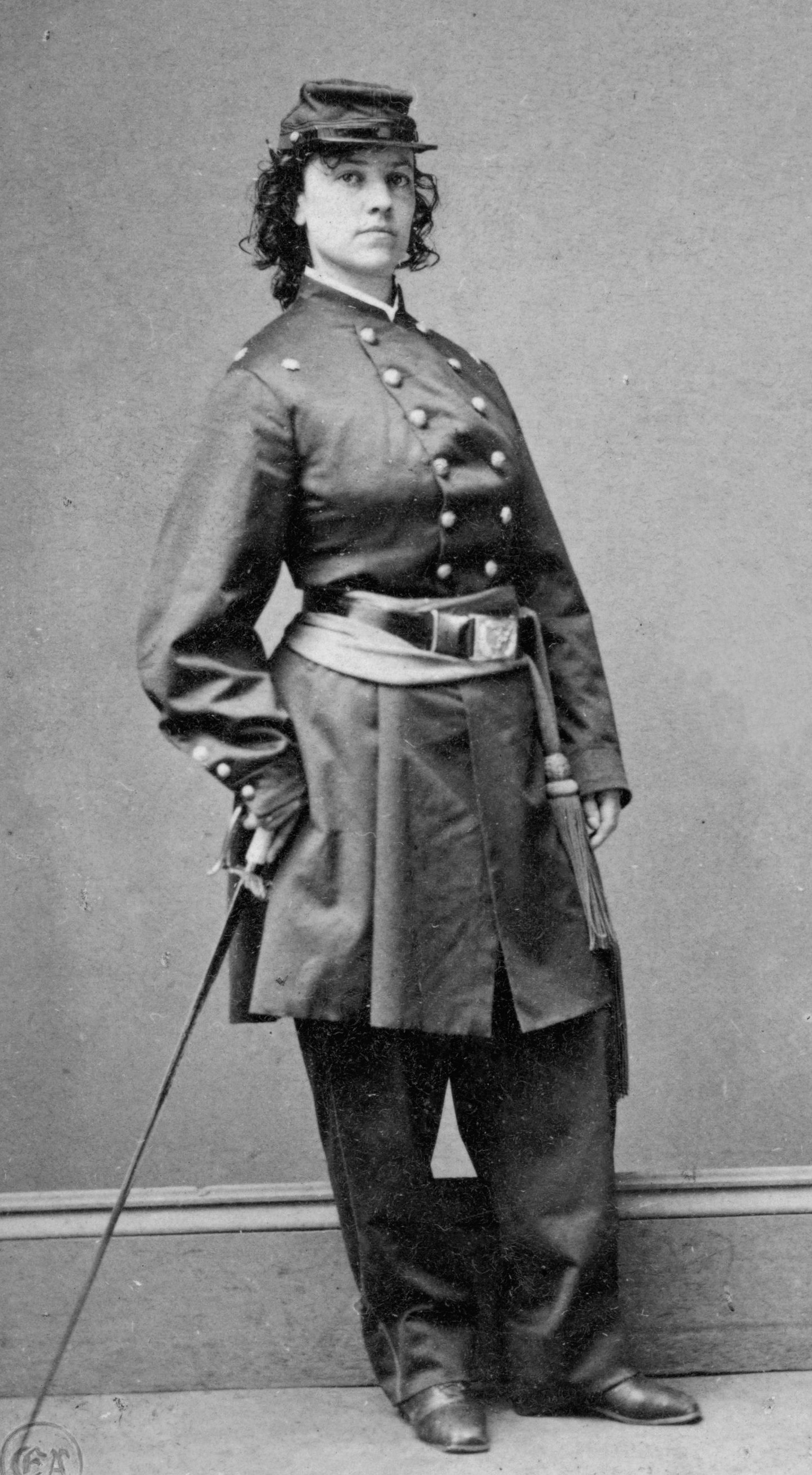 Title: Actress and Union spy Pauline Cushman in uniform with sword Abstract/medium: 1 photograph : albumen print on card mount ; mount 11 x 7 cm (carte de visite format)